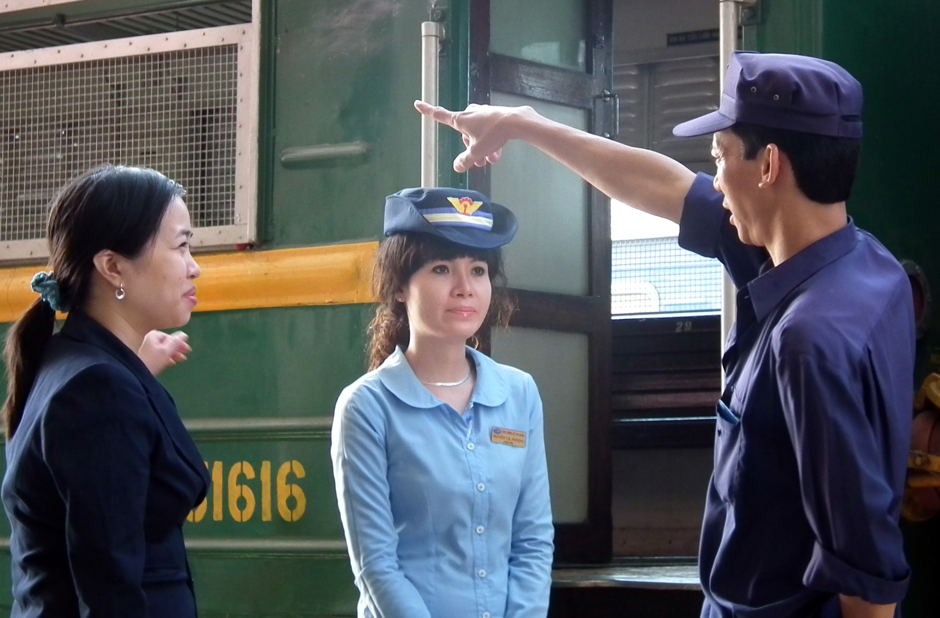 Employees of the Vietnamese train company on the station of Nah Trang.